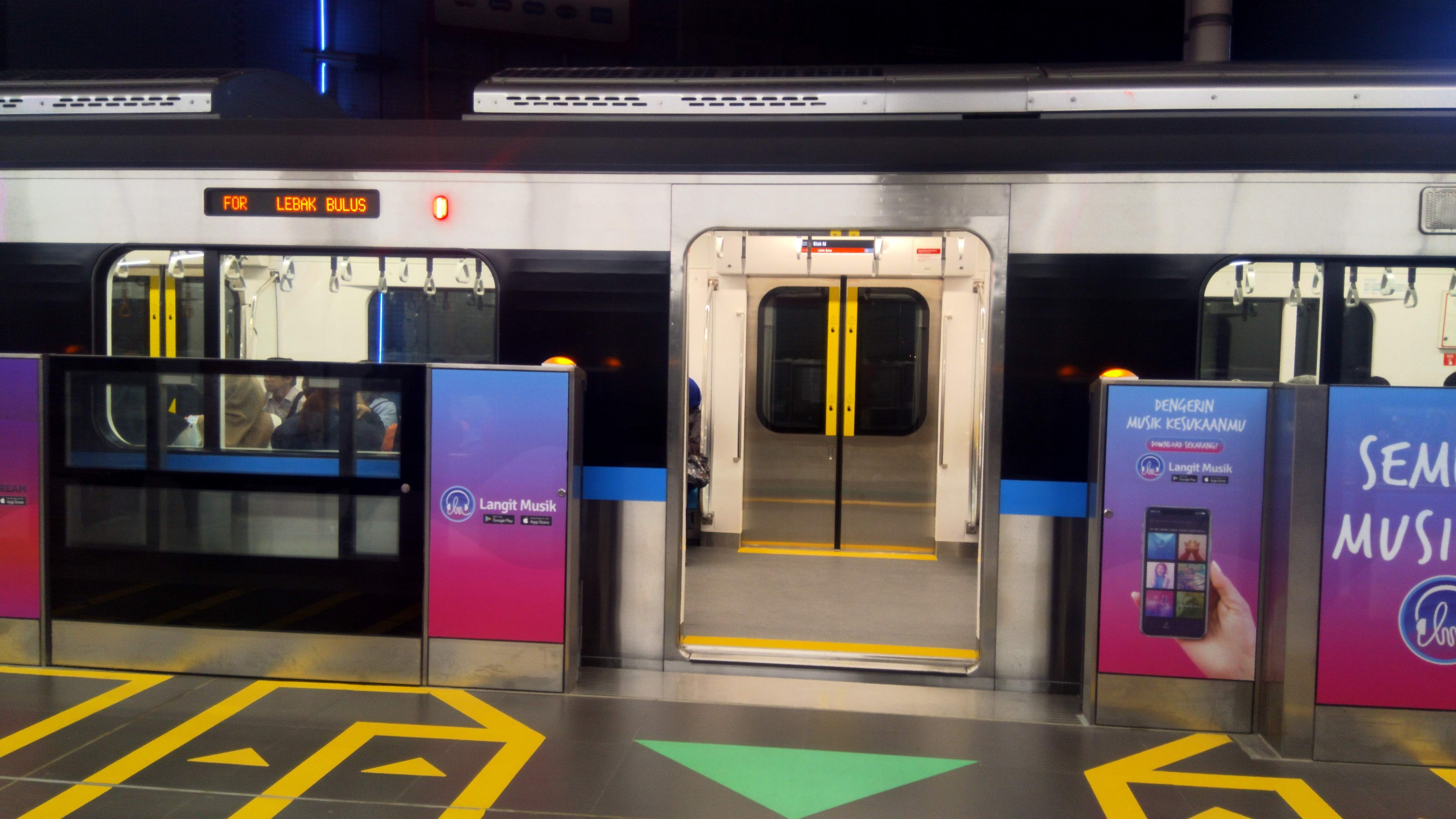 Jakarta MRT train stopping at Blok M MRT Station